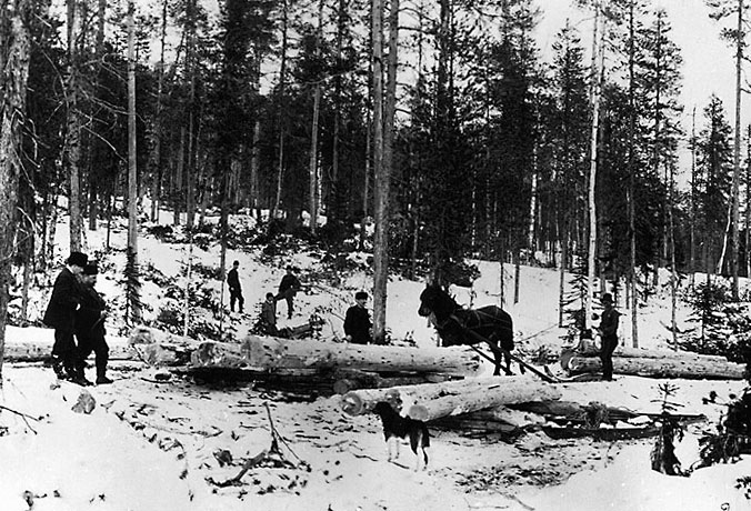 The Great Logging in Stensele, Sweden, 1905, when nearly a million timber trees were cut during nine years. Here the timber is loaded on sleighs in the forest.